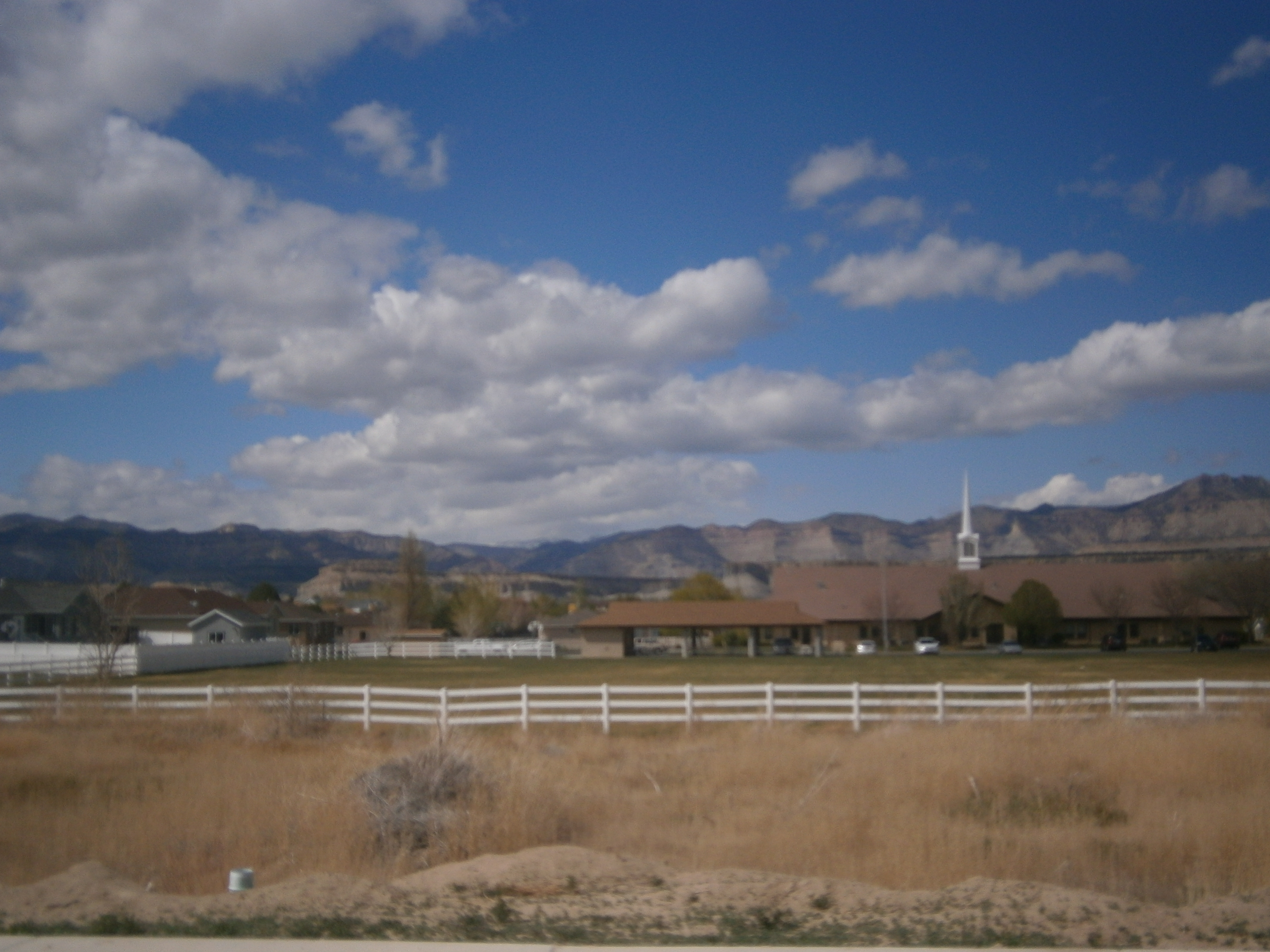 View of the central part of the West Wood subdivision, in Carbon County, Utah, United States, including the local meetinghouse of The Church of Jesus Christ of Latter-day Saints.